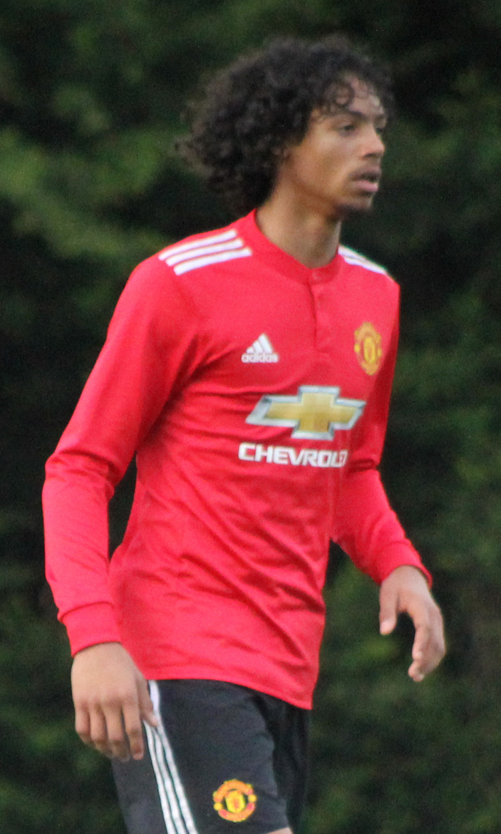 Blackburn Rovers U18s 1-4 Manchester United U18s U18 Premier League North Saturday 18 November Blackburn Rovers Training Centre